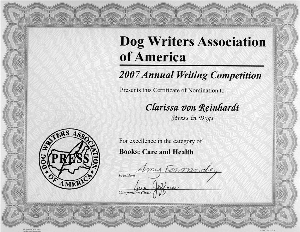 This picture shows the Certificate of Nomination to Clarissa von Reinhardt, Stress in Dogs, in the 2007 Annual Writing Competition for excellence in the category of Books: Care and Health of the Dog Writers Association of America.